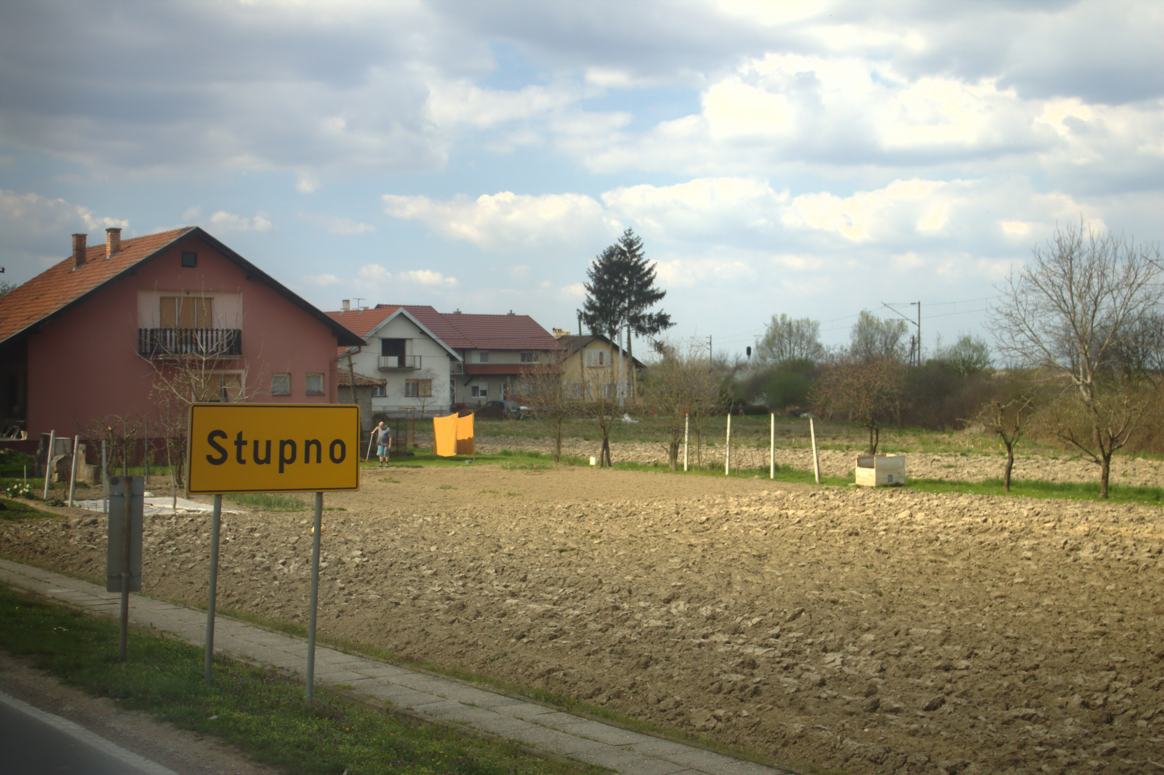 Southern edge of the town of Supno close to the rail crossing and the town of Sisak, Croatia